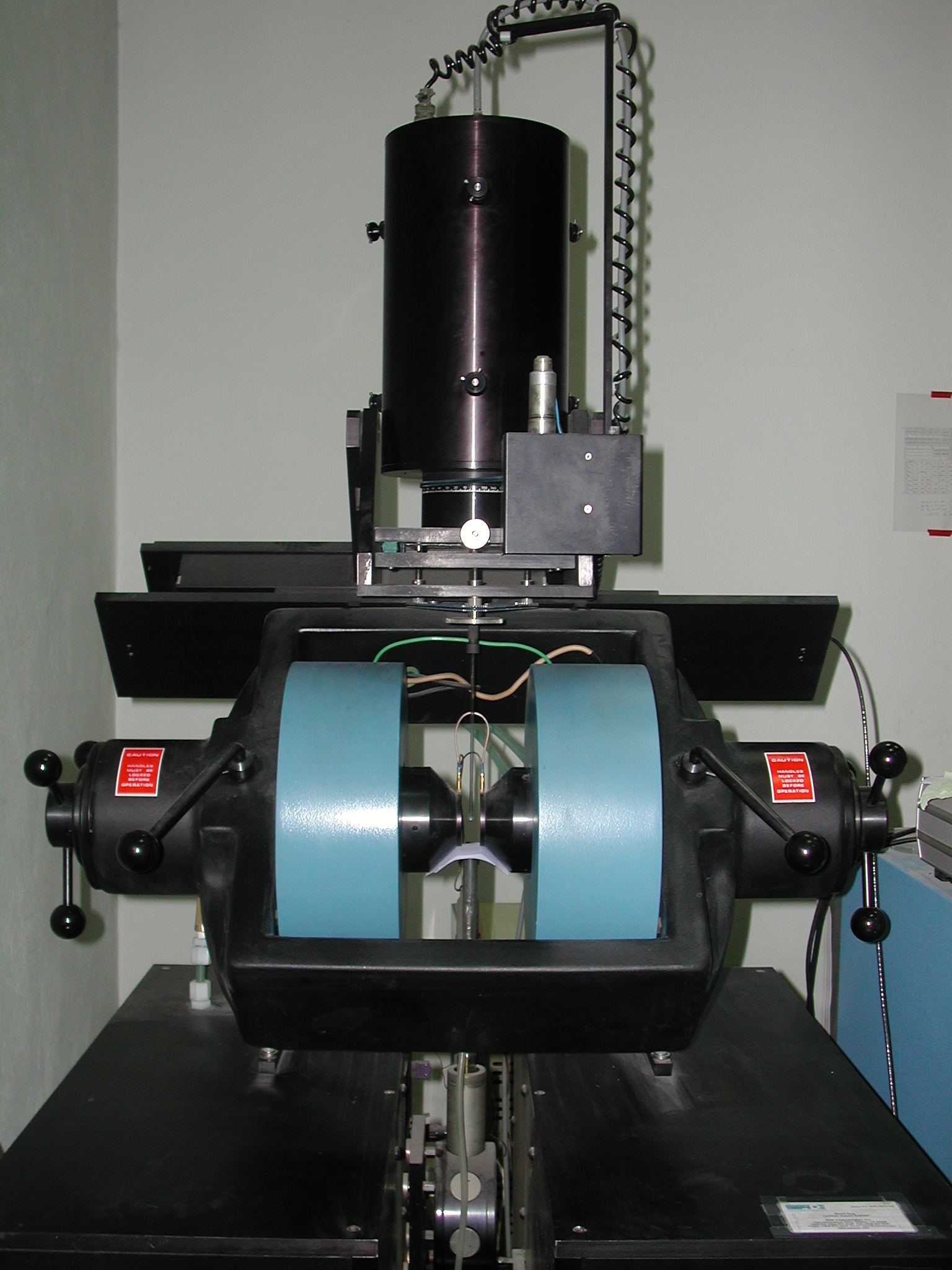 A Vibrating Sample Magnetometer (VSM).